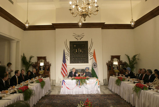 President George W. Bush and Prime Minister Manmohan Singh of India Source: White House